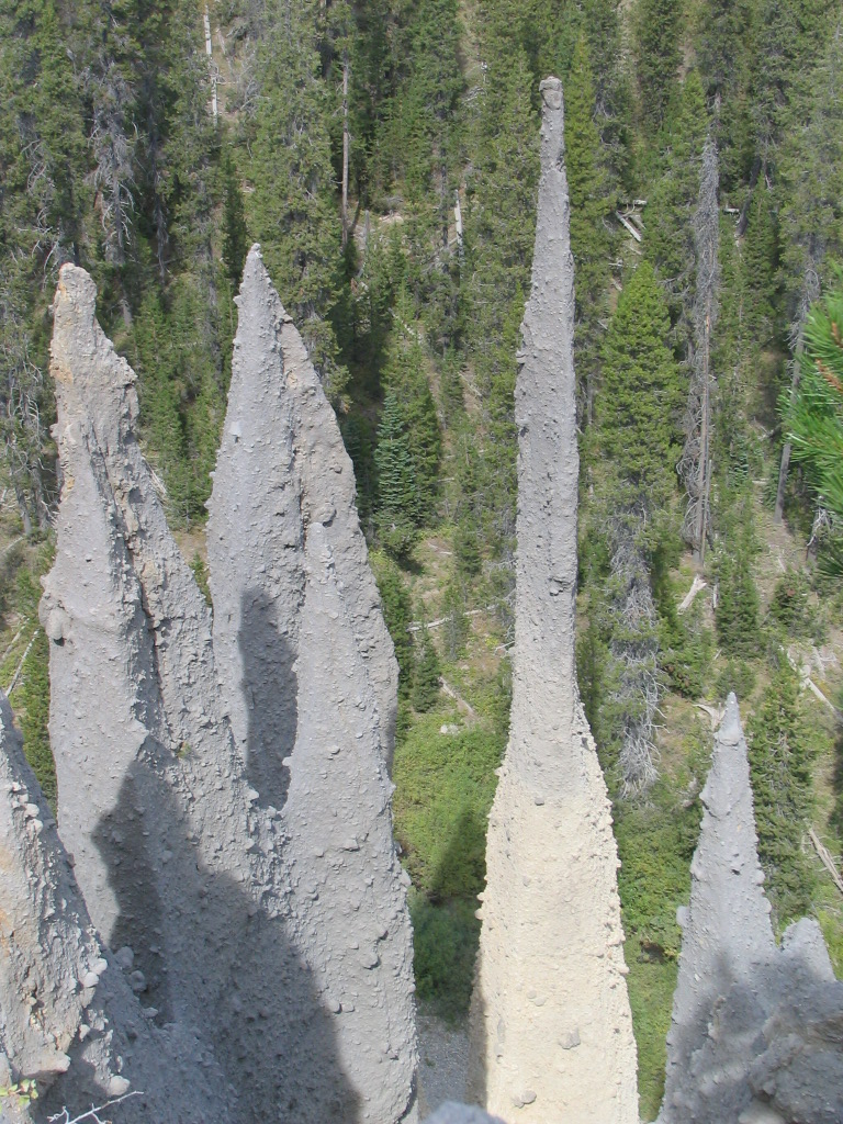 View of the Pinnacles in Crater Lake National Park. Picture taken 16 September 2005.